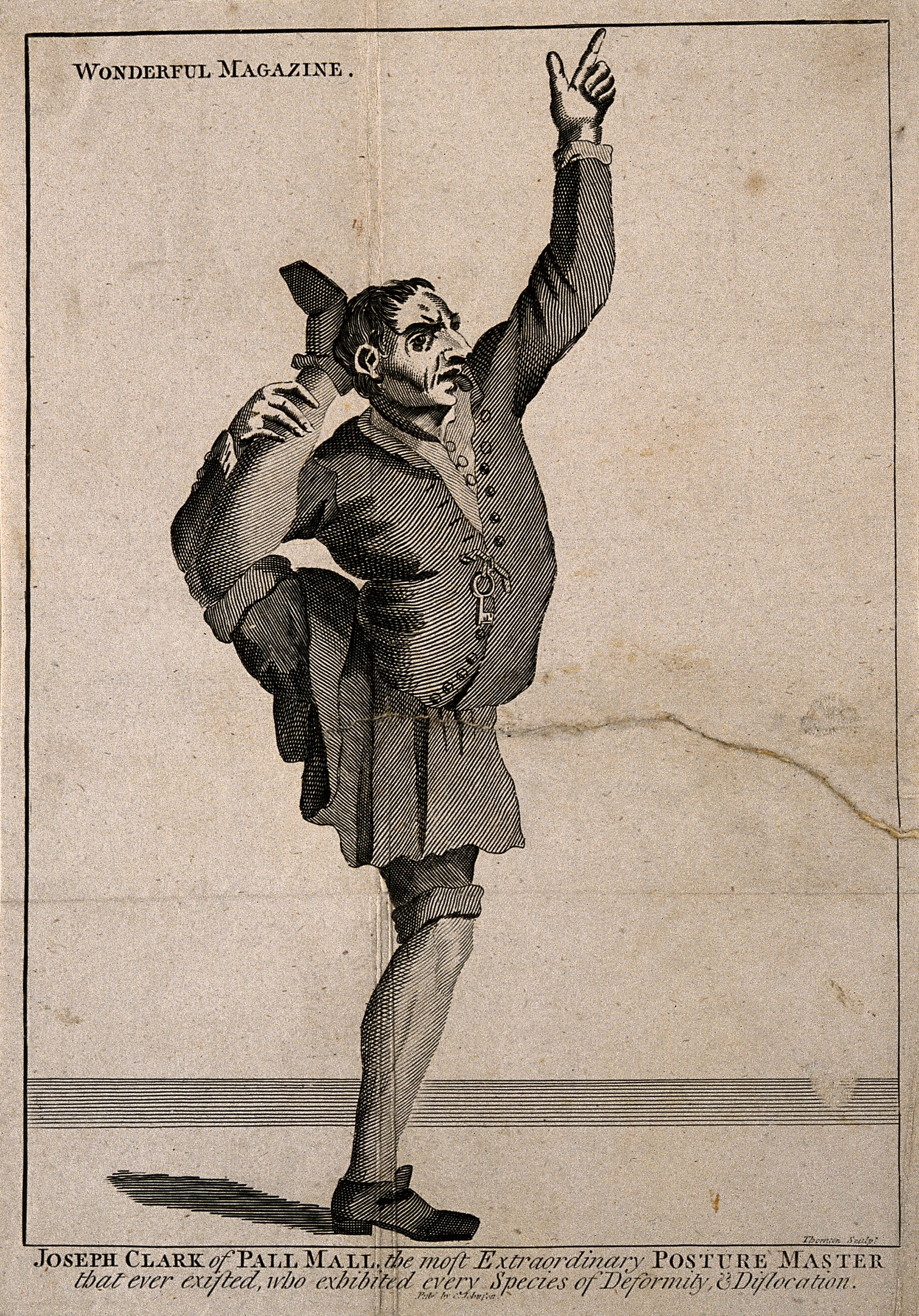 Joseph Clark, a contortionist. Line engraving by Thornton. Iconographic Collections Keywords: portrait prints; engravings; Thornton; Joseph Clark; clark, joseph